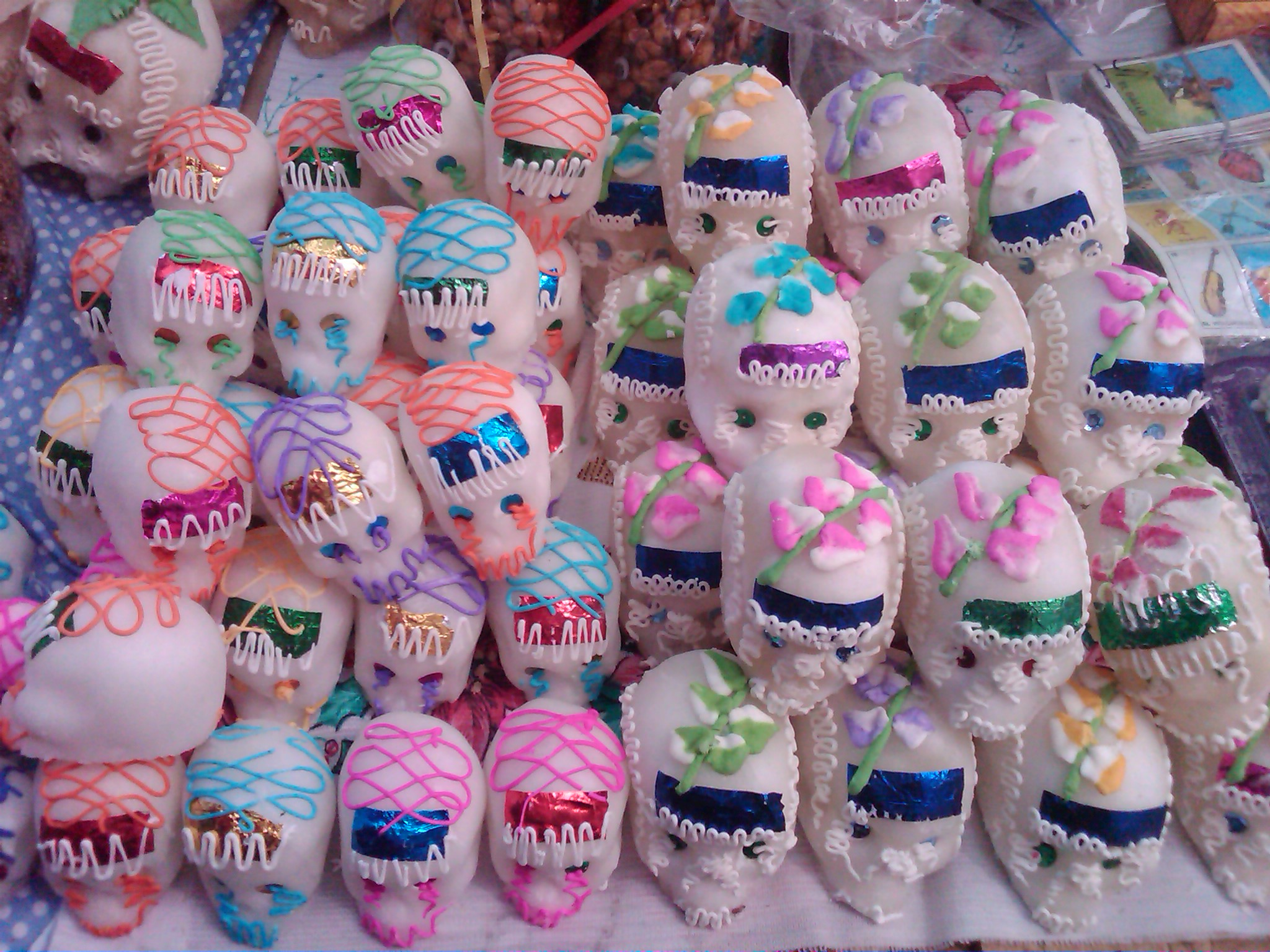 These skulls are made of candy and are used to decorate the offerings in the day of the deads.